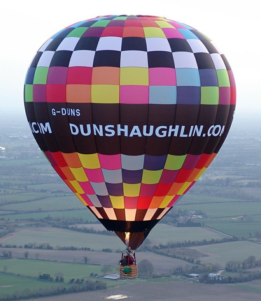 The hot-air balloon.